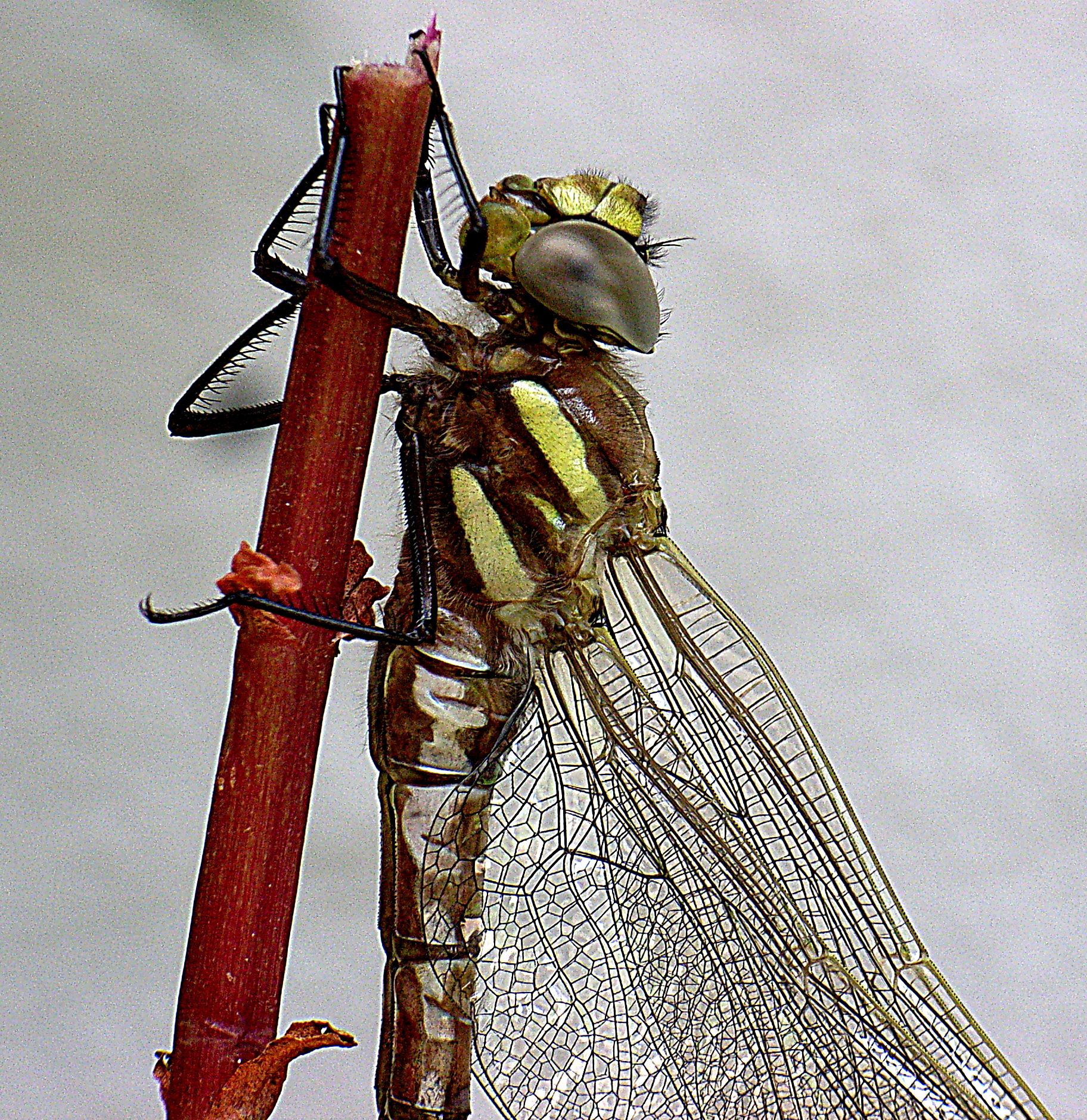 Detail of Aeshna juncea, not yet fully couloured.